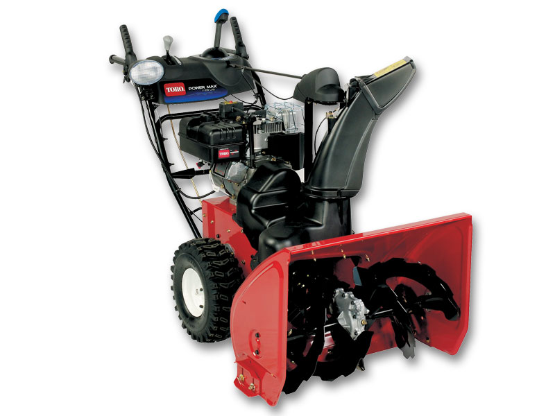 Picture of snow cleaning machine